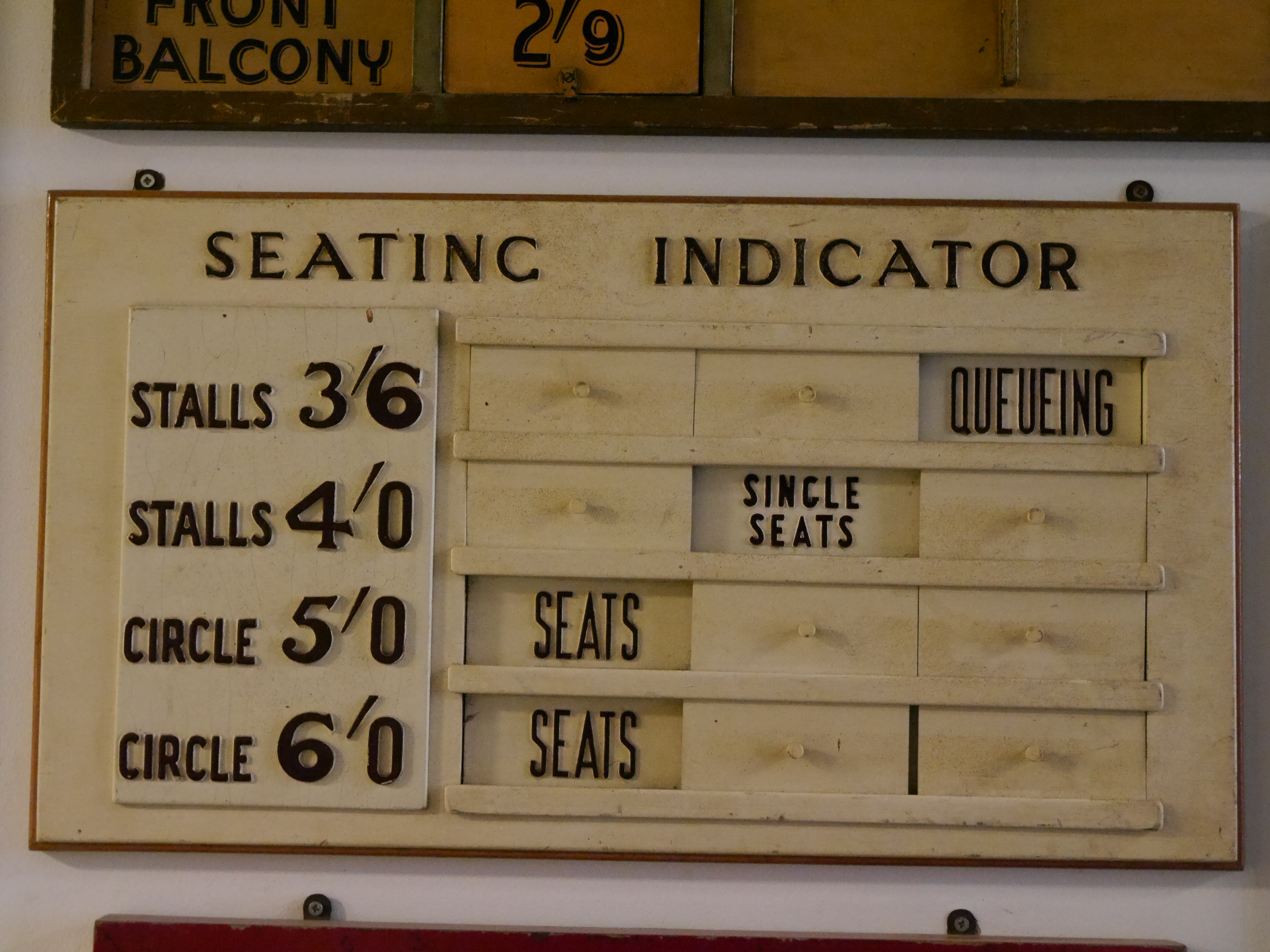 Cinema Museum, London object